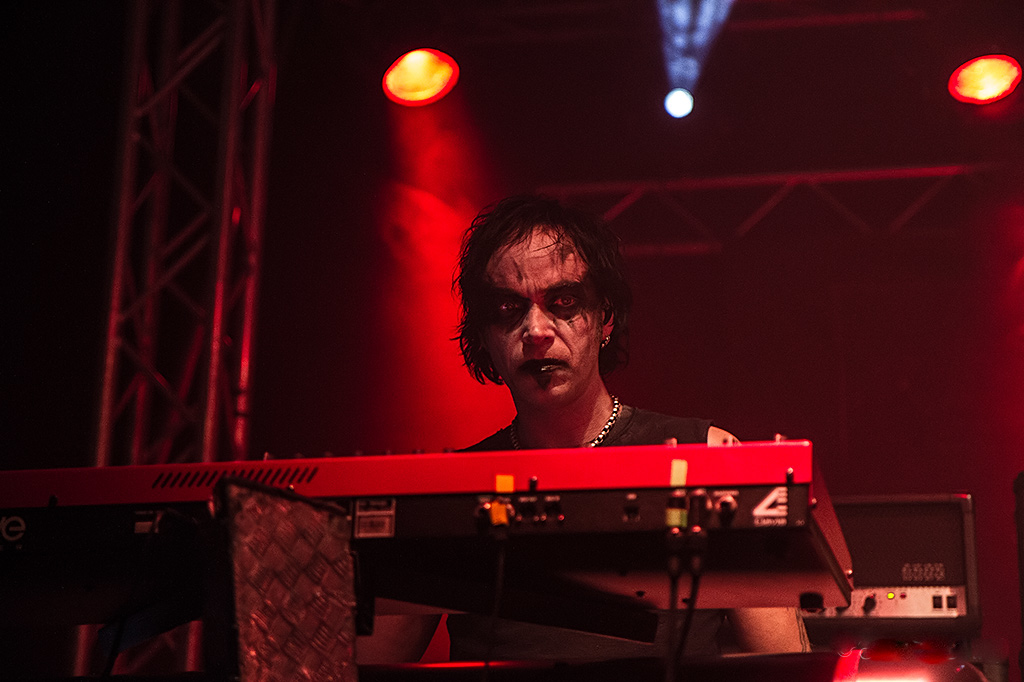 God Seed - 7.12.2012 - Music Hall, Geiselwind